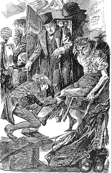 Great Expectations, Pip enters Mr Wopsle's dressing Room, by Harry Furniss (1910)